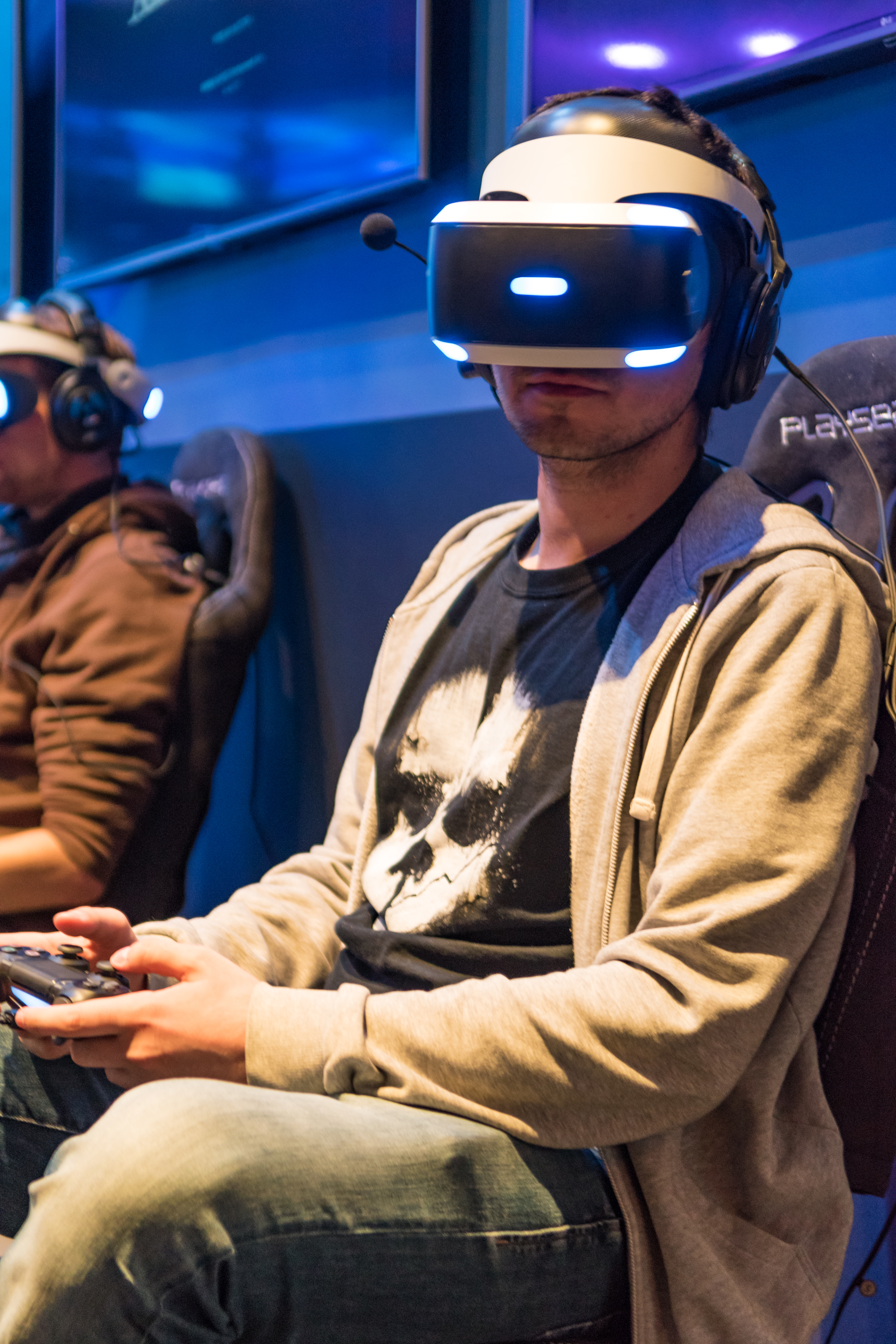 Sony Playstation Virtual Reality